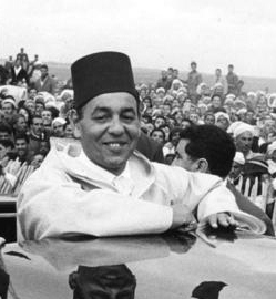 Cropped version of the file